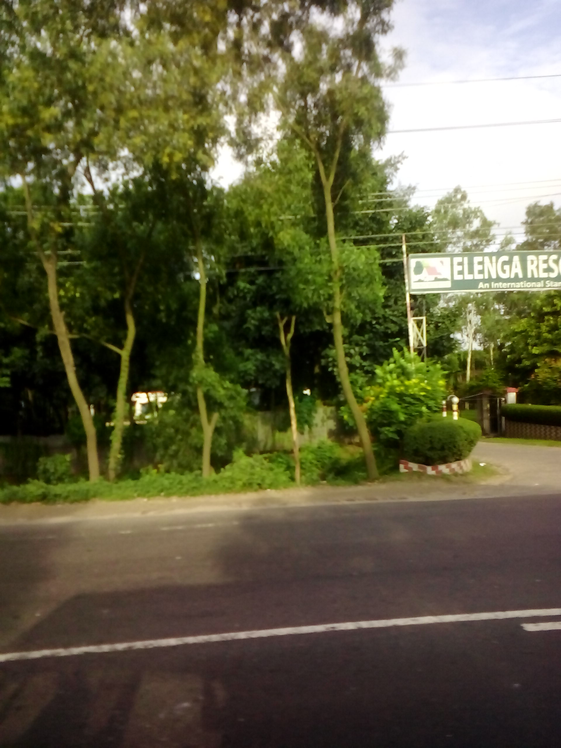 Elenga resort signboard nearDhaka-Rajshahi Road. Elenga Tangail